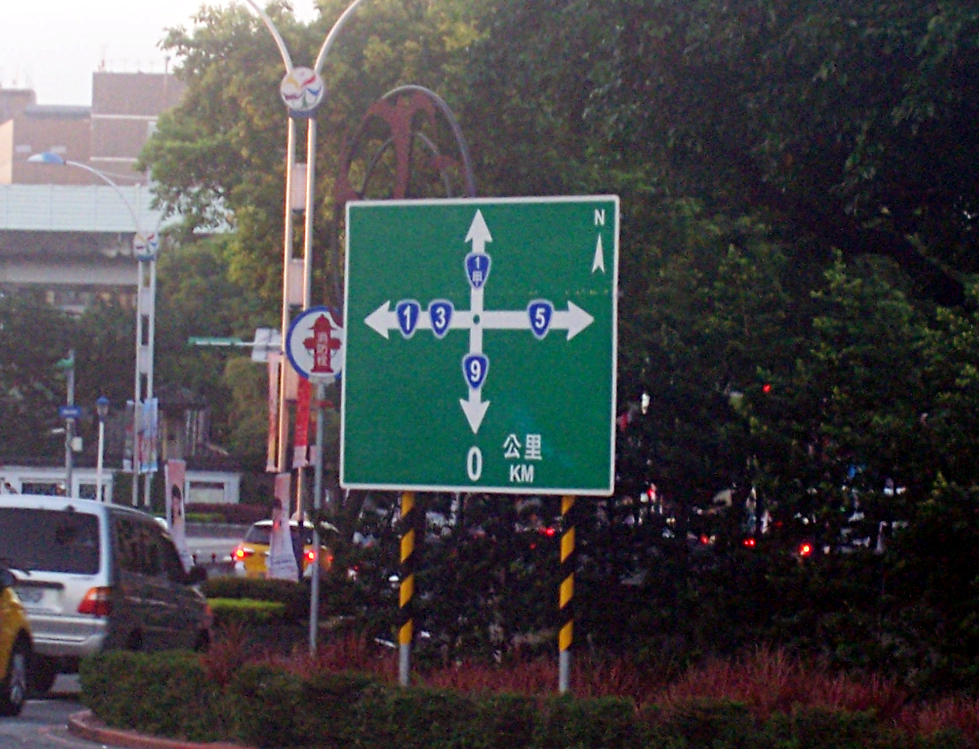 The road sign of the kilometer zero of provincial highways in Taiwan, locating by Executive Yuan